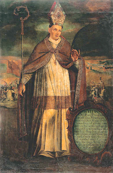 Blessed Vitus of Lithuania, the first legal bishop on the territory of modern Belarus Беларуская (тарашкевіца): Віт, першы легітымны біскуп не землях сучаснай Беларусі